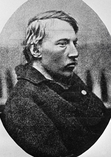 Russian terrorist Dmitry Karakozov after his attempt to assassinate Alexander II of Russia